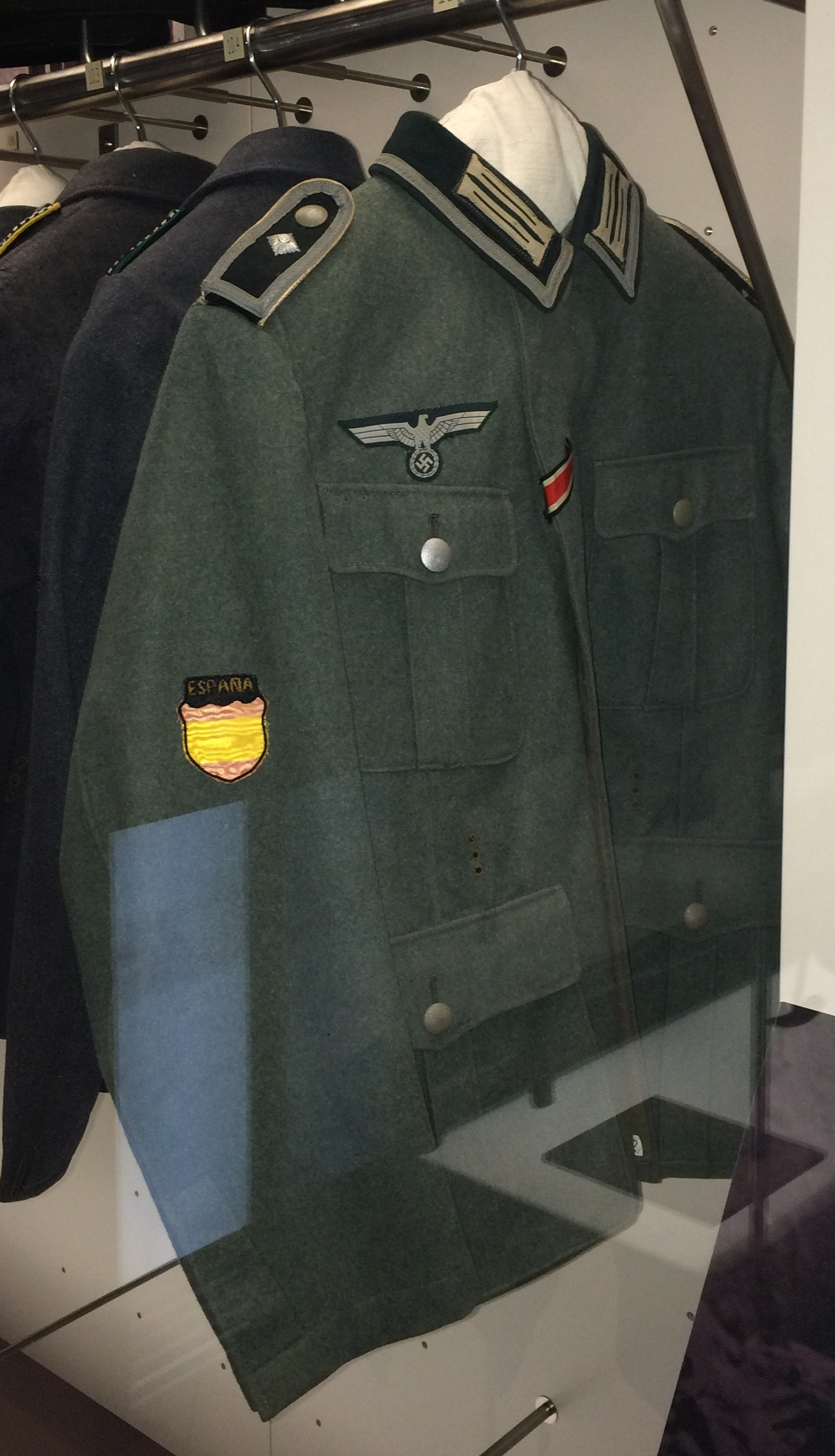 Jacket of the uniform of the Blue Division, a Spanish infantry unit that fought alongside Nazi troops against the Soviet Union. Photo taken at the Royal Military Museum, Brussels.